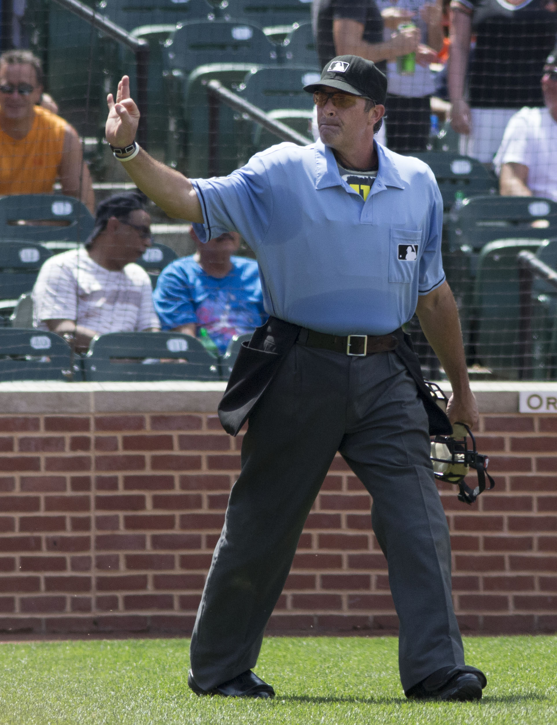 Paul Nauert serving as the home plate umpire for a Baltimore Orioles–Toronto Blue Jays game on July 14, 2013.